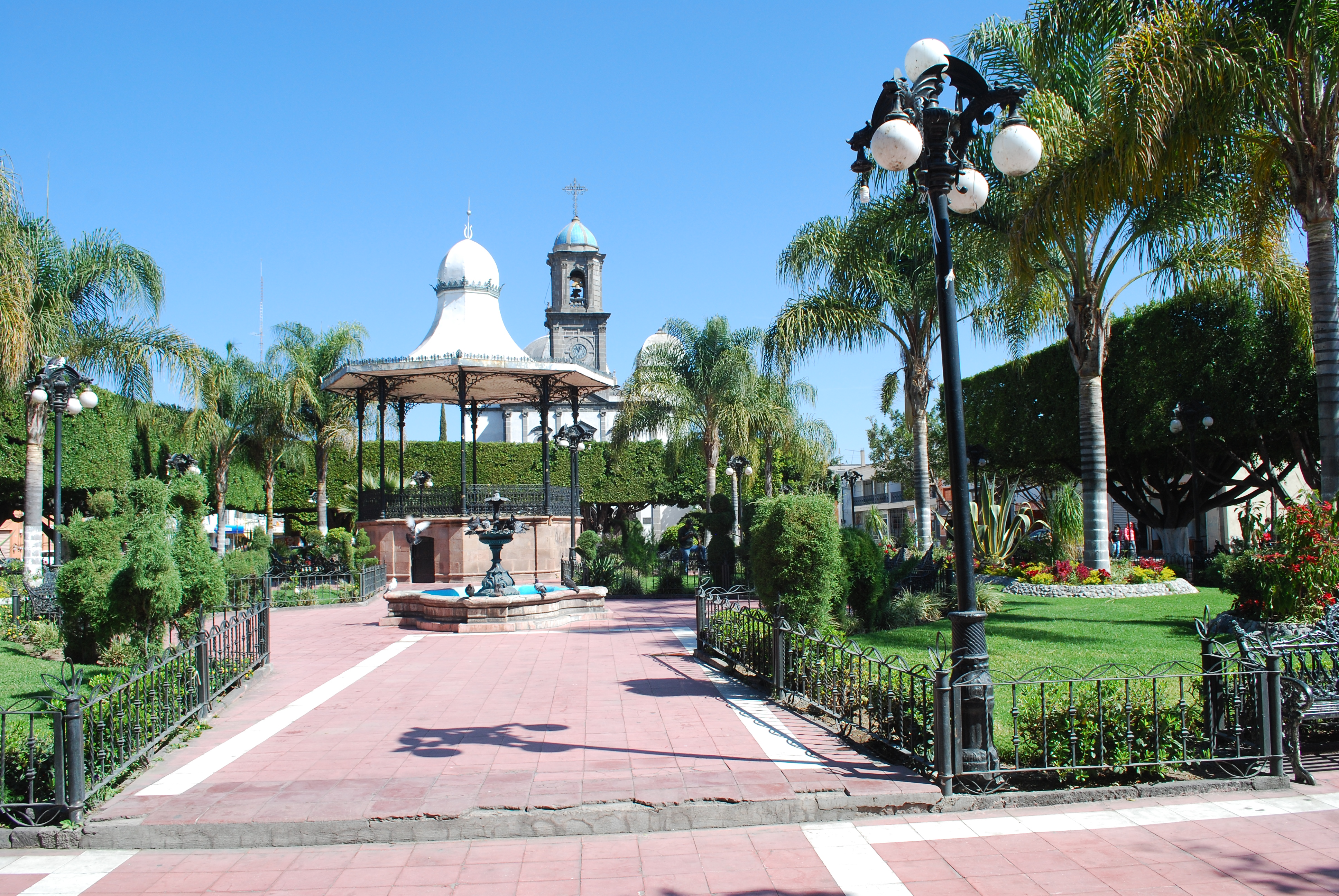 Main garden of Acambaro with the Templo Santuario de Guadalupe in the background.